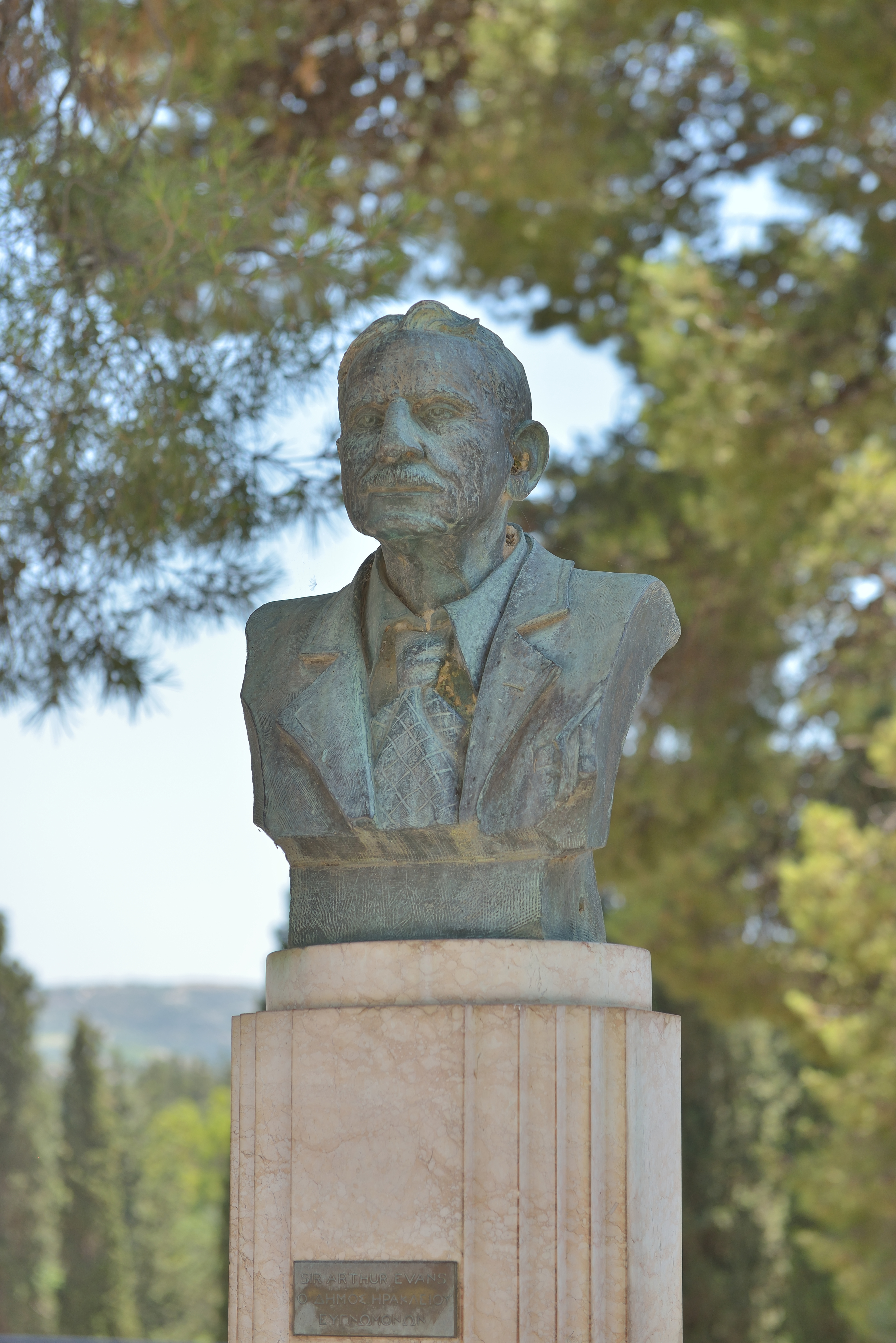 Bust of Sir Arthur Evans in Knossos in Crete.